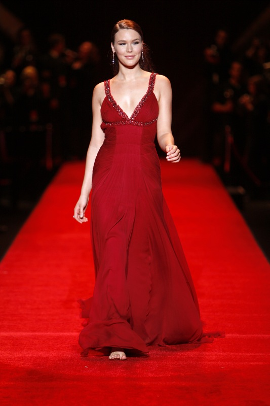 Joss Stone modeling at The Heart Truth Fashion Show 2008